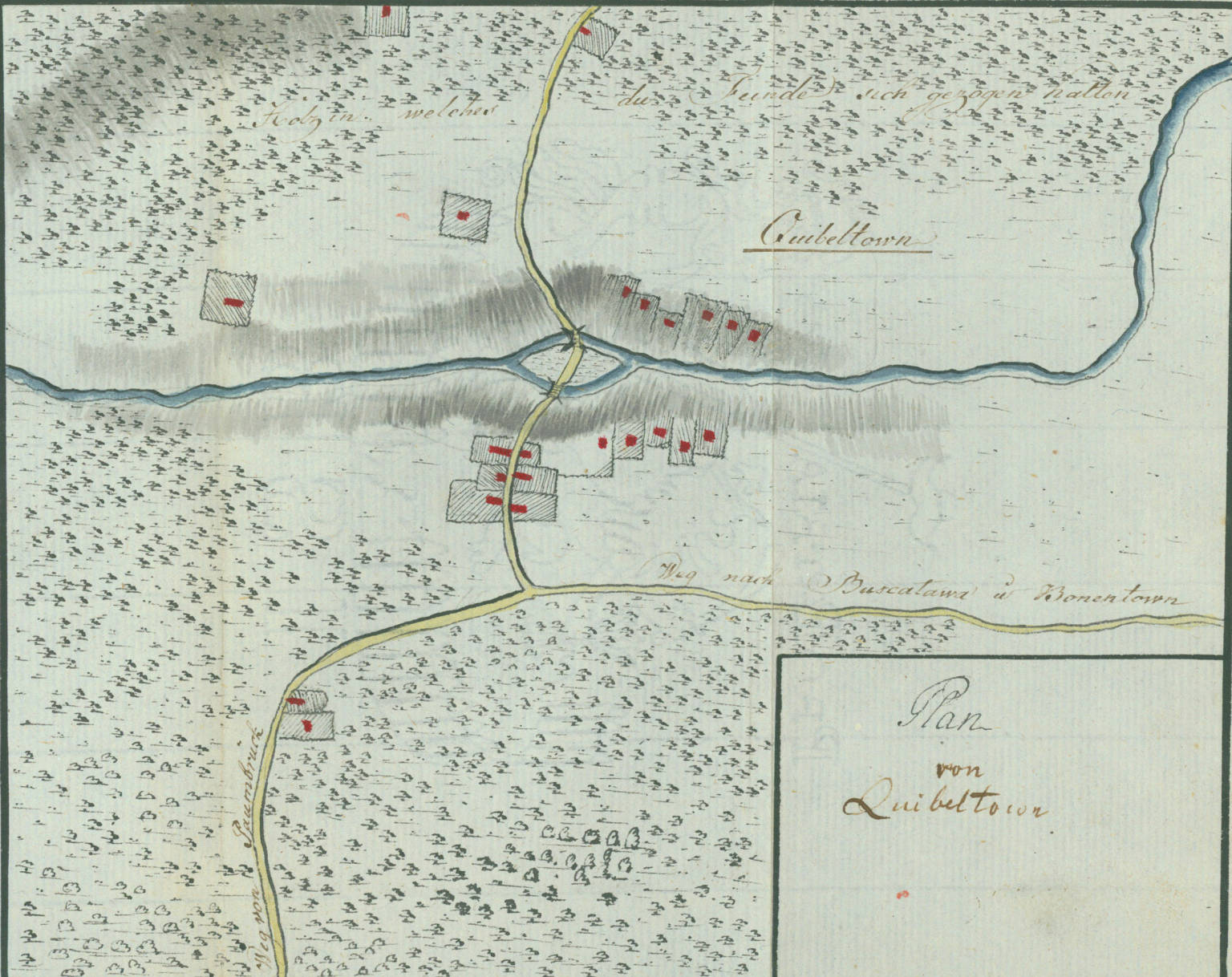 Plan of the Battle of Quibbletown. The stream is the Bound Brook. The road to the left leads to Bound Brook, New Jersey. The road to the right leads to Piscataway, New Jersey and Bonhamtown, New Jersey. Inscription at top reads: "Wood in which the enemy had withdrawn." (Notes: Plan of Quibbletown)